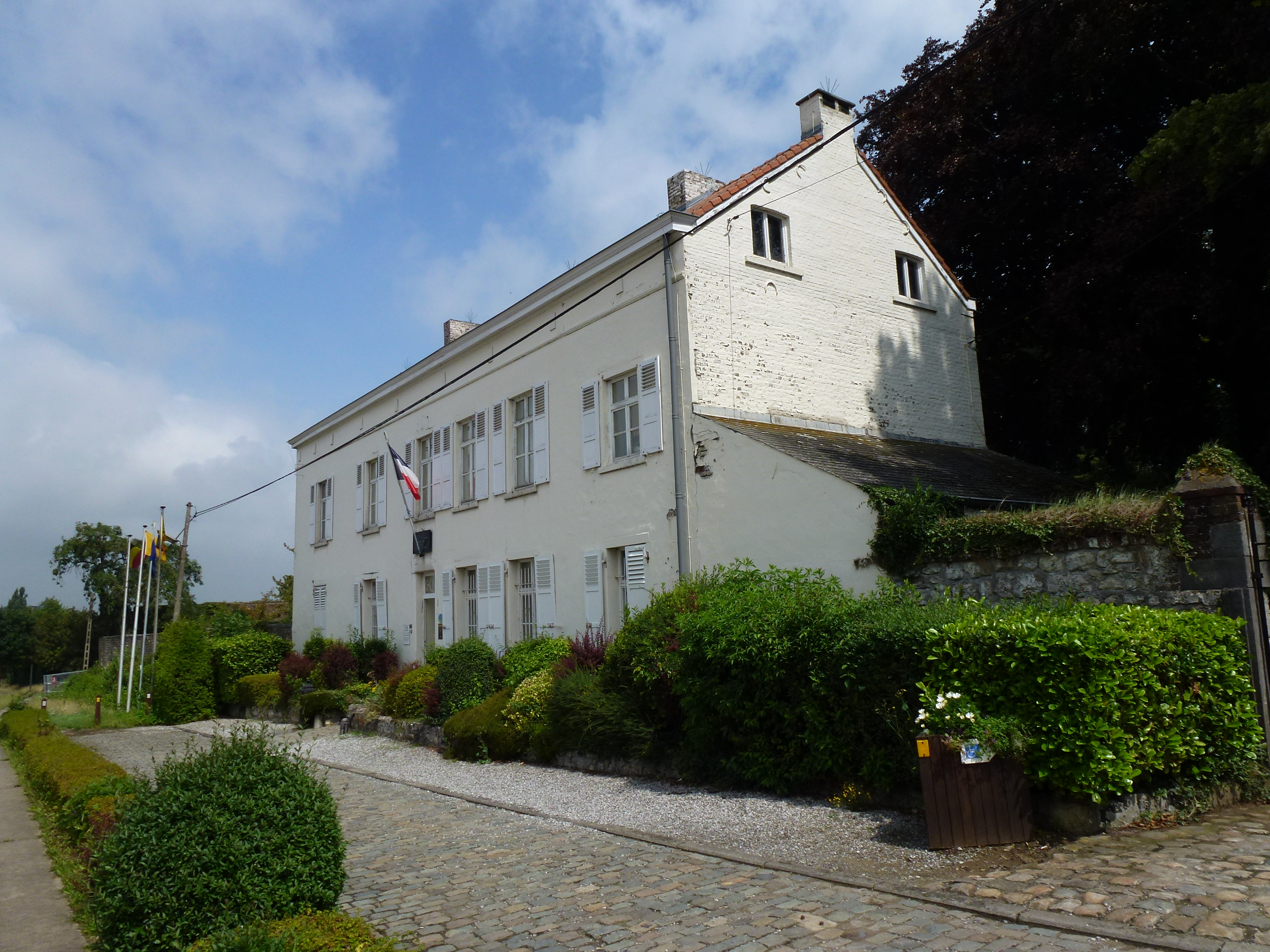 Napoleon's headquarters at the Battle of Waterloo (1815-06-17/18), the Caillou ("Pebble") Farm